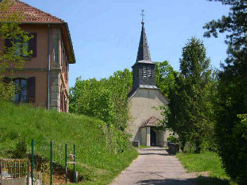 Church of Brebotte, Territoire de Belfort, Franche-Comté, France.